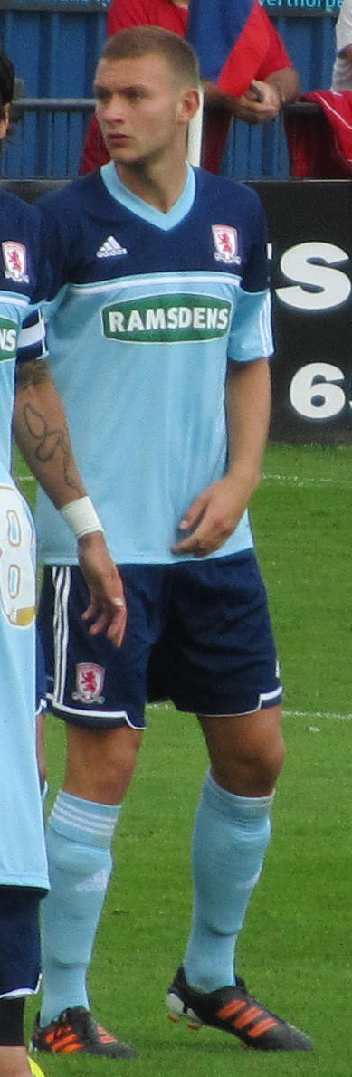 Ben Gibson